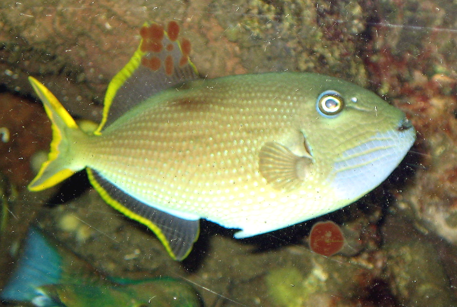 Xanthichthys auromarginatus in Muséum-aquarium de Nancy Map: 48° 41' 41" N 6° 11' 18" E